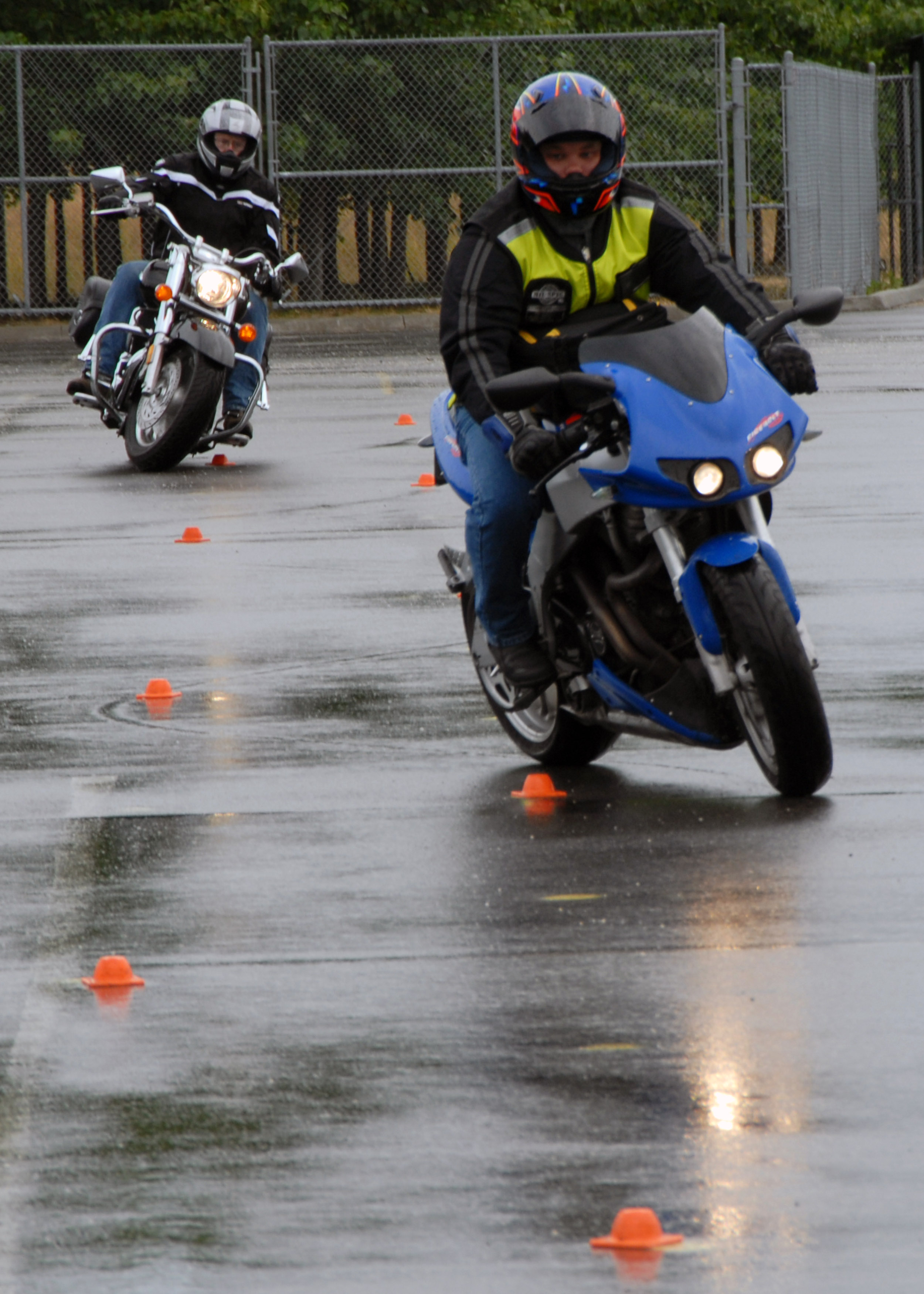 KEYPORT, Wash. (June 28, 2007) - Machinist’s Mate 1st Class Jason Witty and Machinist’s Mate 1st Class Steve Oleson, assigned to guided-missile submarine USS Ohio (SSGN 726), ride their motorcycles through the advanced motorcycle safety training course. All motorcyclists stationed aboard Ohio were asked by their command to attend this course to improve motorcycle safety skills and awareness. U.S. Navy photo by Mass Communication Specialist 2nd Class Eric J. Rowley (RELEASED)